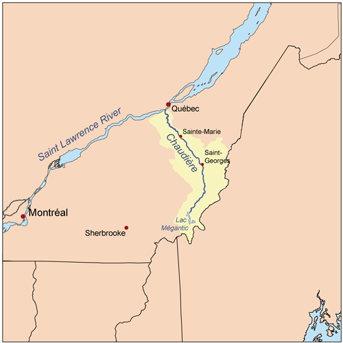 Map of the Chaudière River watershed.